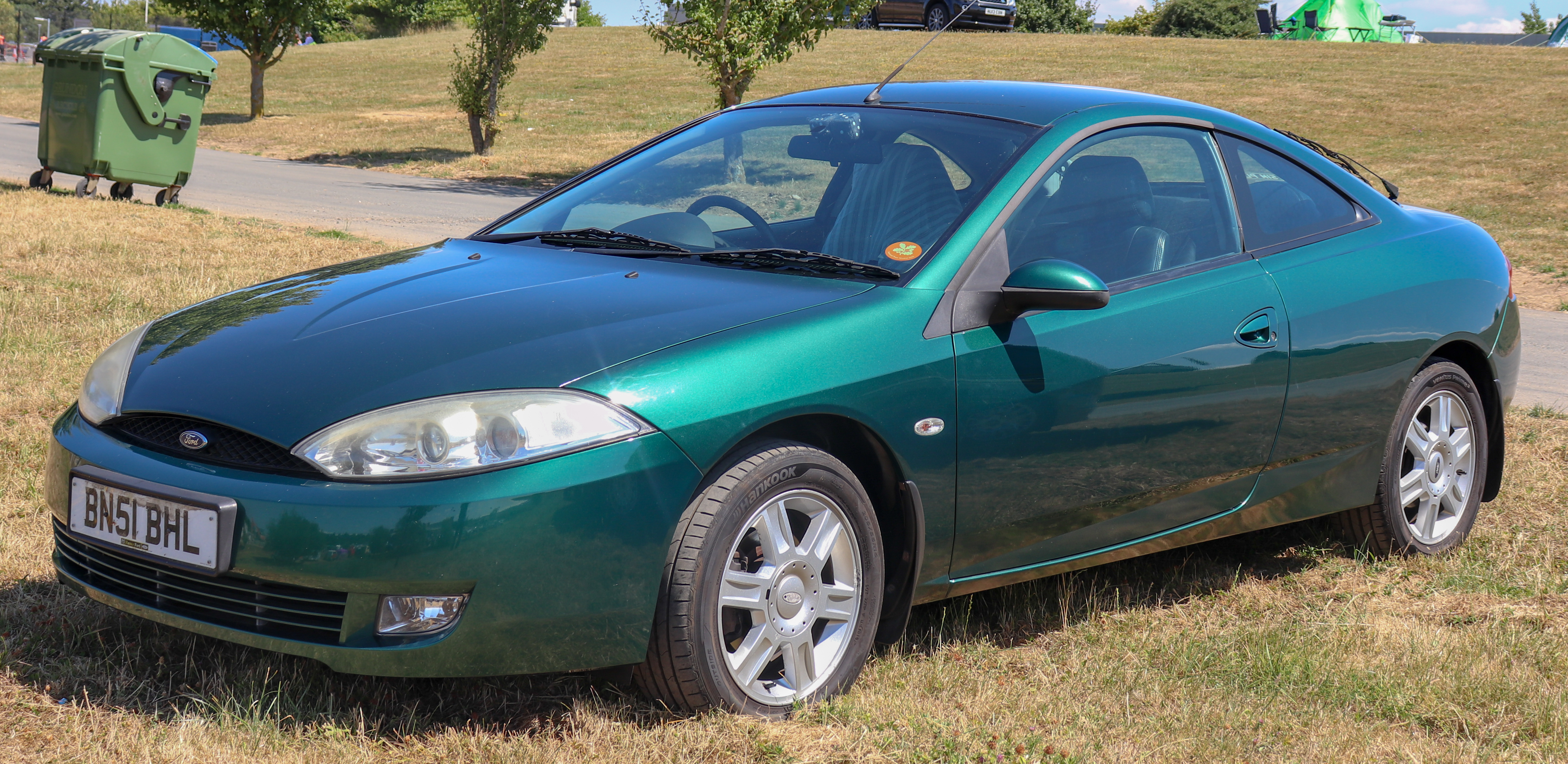 2001 Ford Cougar 2 2.5 Front Taken at the British Motor Museum Old Ford Rally 2018, Gaydon